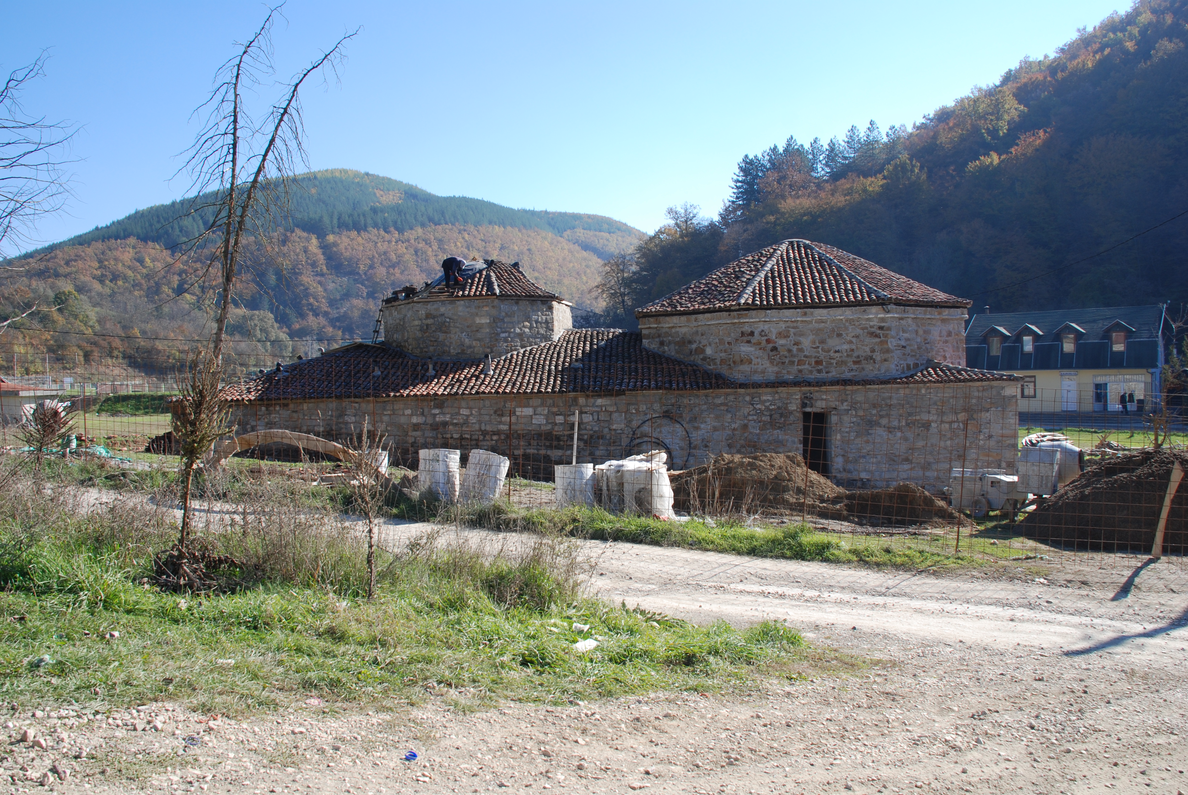 Old hamam in Novopazarska Bay (Banja)